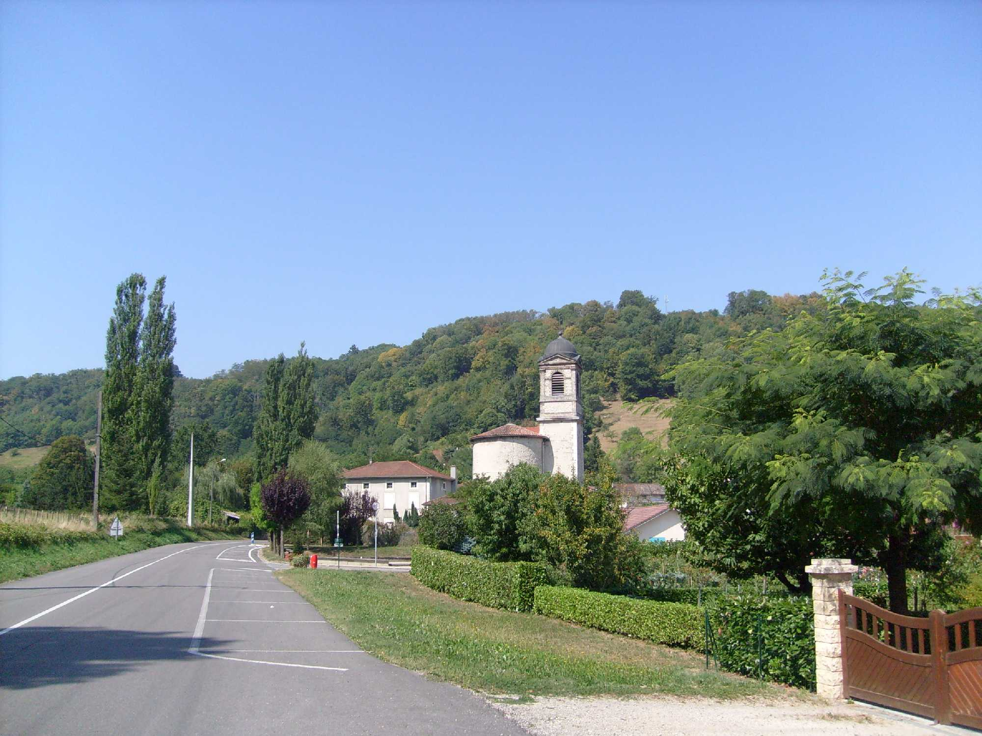 Partial view of L'Albenc (Isère, France).